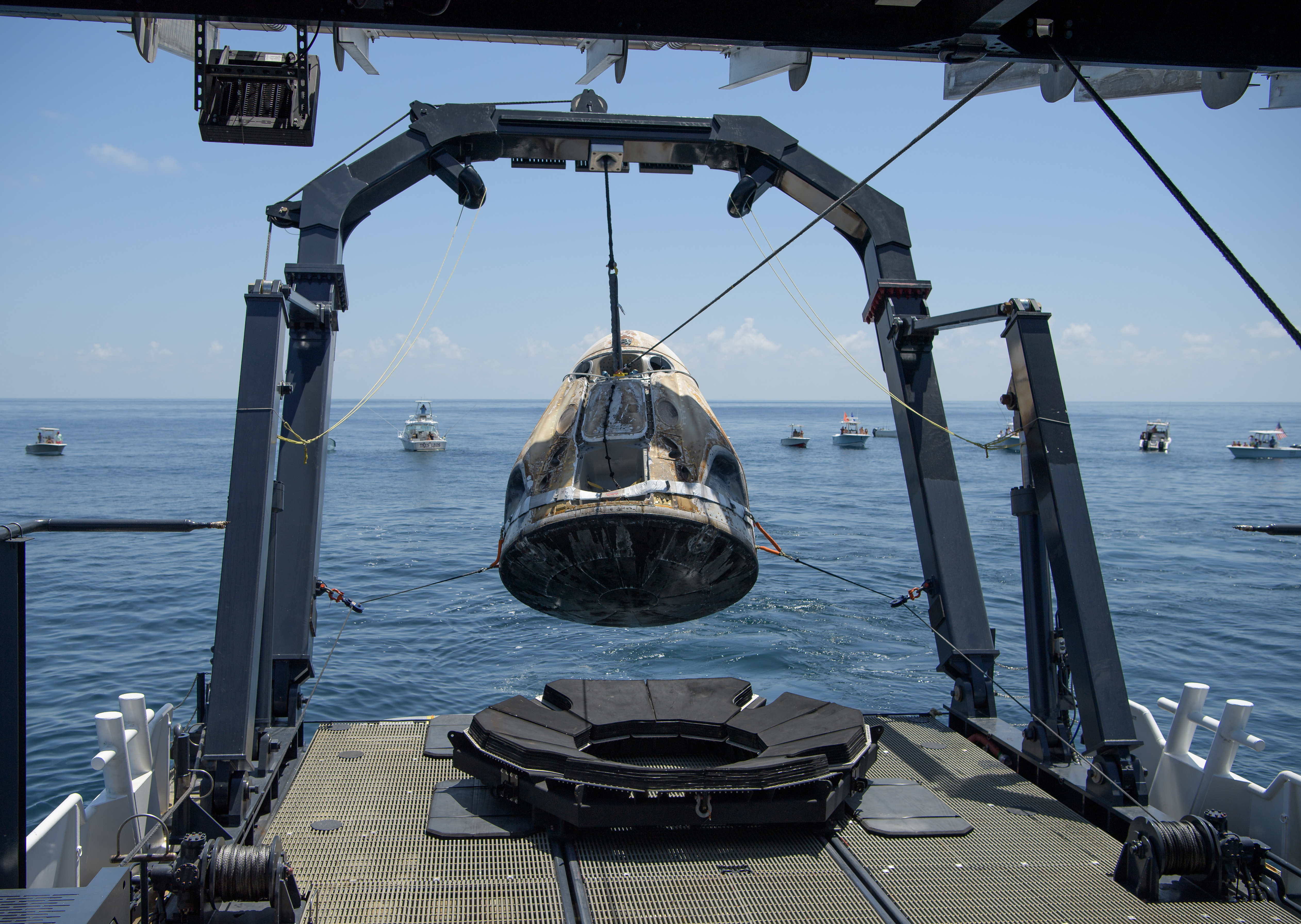 The SpaceX Crew Dragon Endeavour spacecraft is lifted onto the SpaceX GO Navigator recovery ship shortly after it landed with NASA astronauts Robert Behnken and Douglas Hurley onboard in the Gulf of Mexico off the coast of Pensacola, Florida, Sunday, Aug. 2, 2020. The Demo-2 test flight for NASA's Commercial Crew Program was the first to deliver astronauts to the International Space Station and return them safely to Earth onboard a commercially built and operated spacecraft. Behnken and Hurley returned after spending 64 days in space. Photo Credit: (NASA/Bill Ingalls)